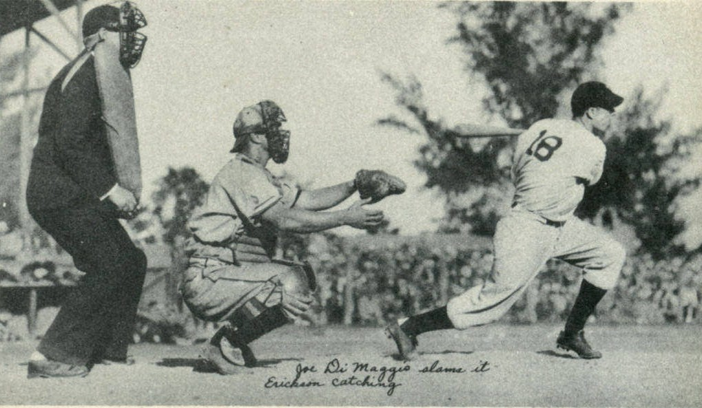 Joe DiMaggio at-bat while Hank Erickson is catching.